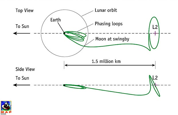 WMAP flight path to Lagrangian point 2